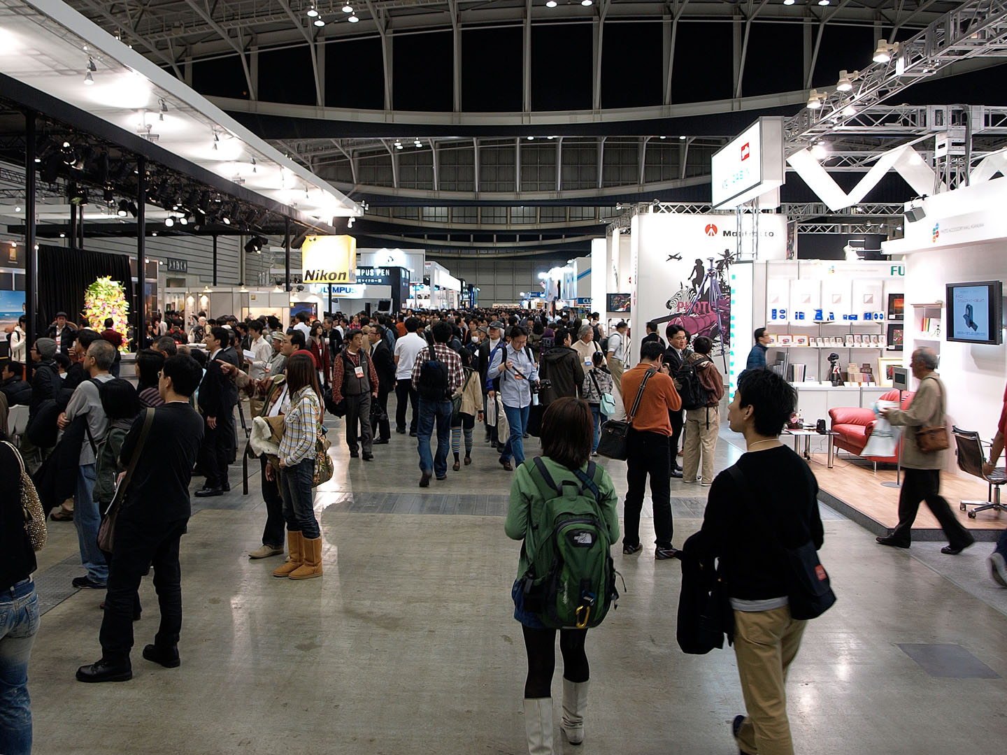 CP+ (an annual camera trade show in Yokohama, Japan)